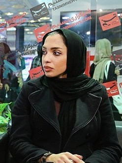 Maryam Toosi visits Tasnim News Agency at 20th Tehran Press Expo